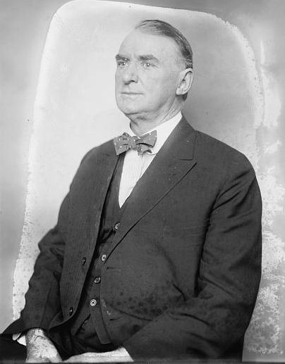 Portrait of John Tillman, congressman from Arkansas, and president of the University of Arkansas.